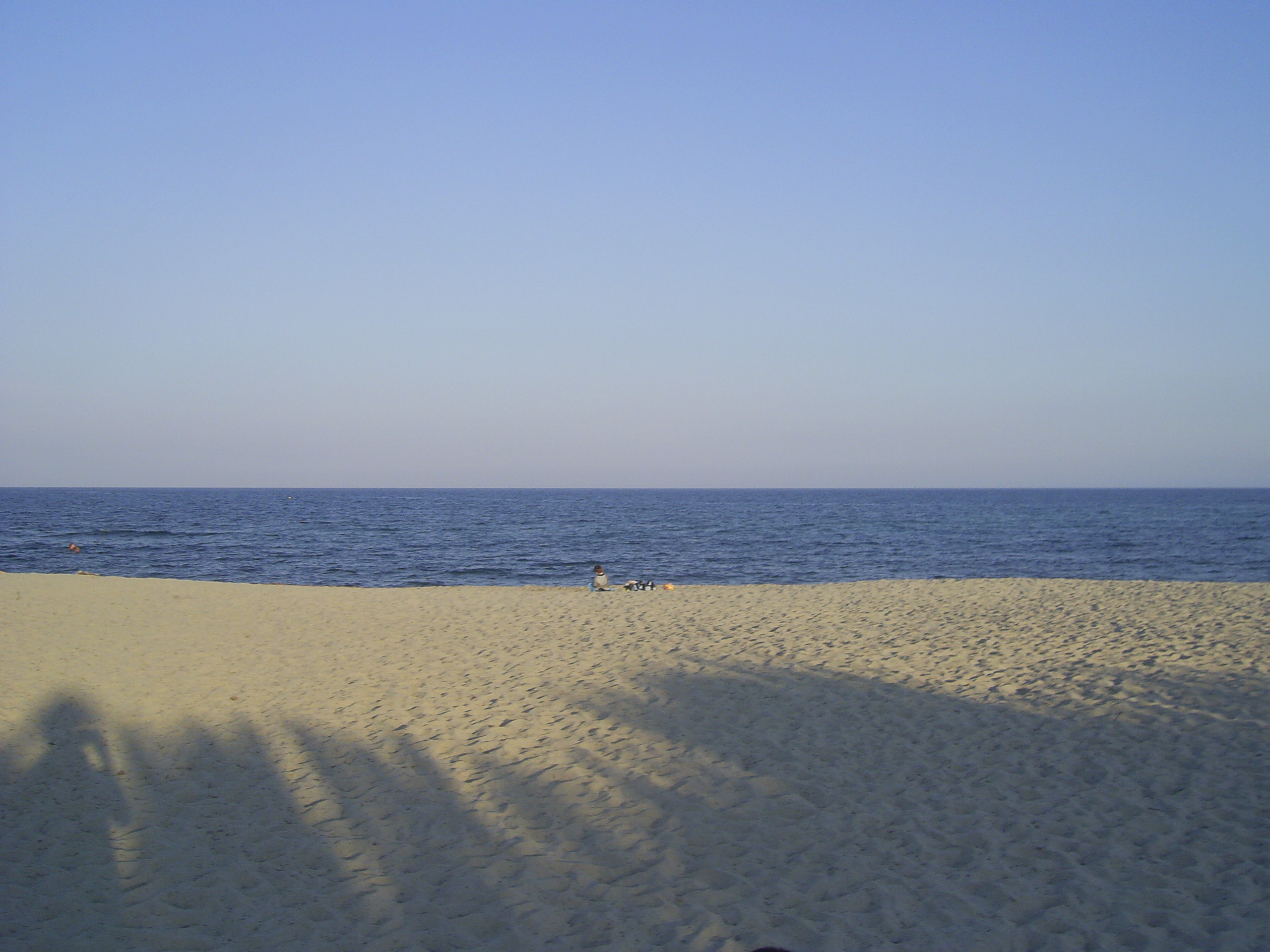 Beach in Ghisonaccia